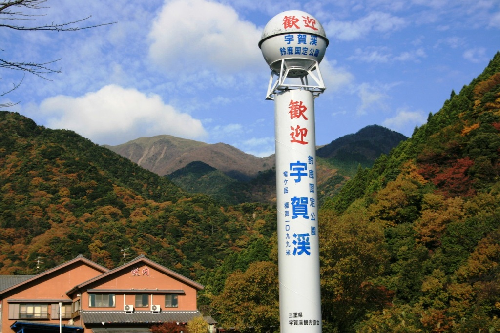 Ryugatake_from_Ugakei